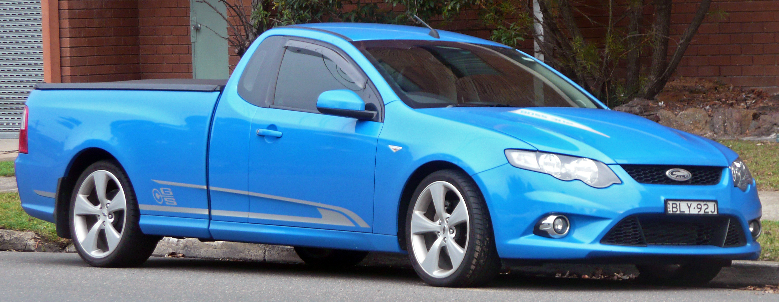 2009 FPV GS (FG) utility. Photographed in Caringbah, New South Wales, Australia.